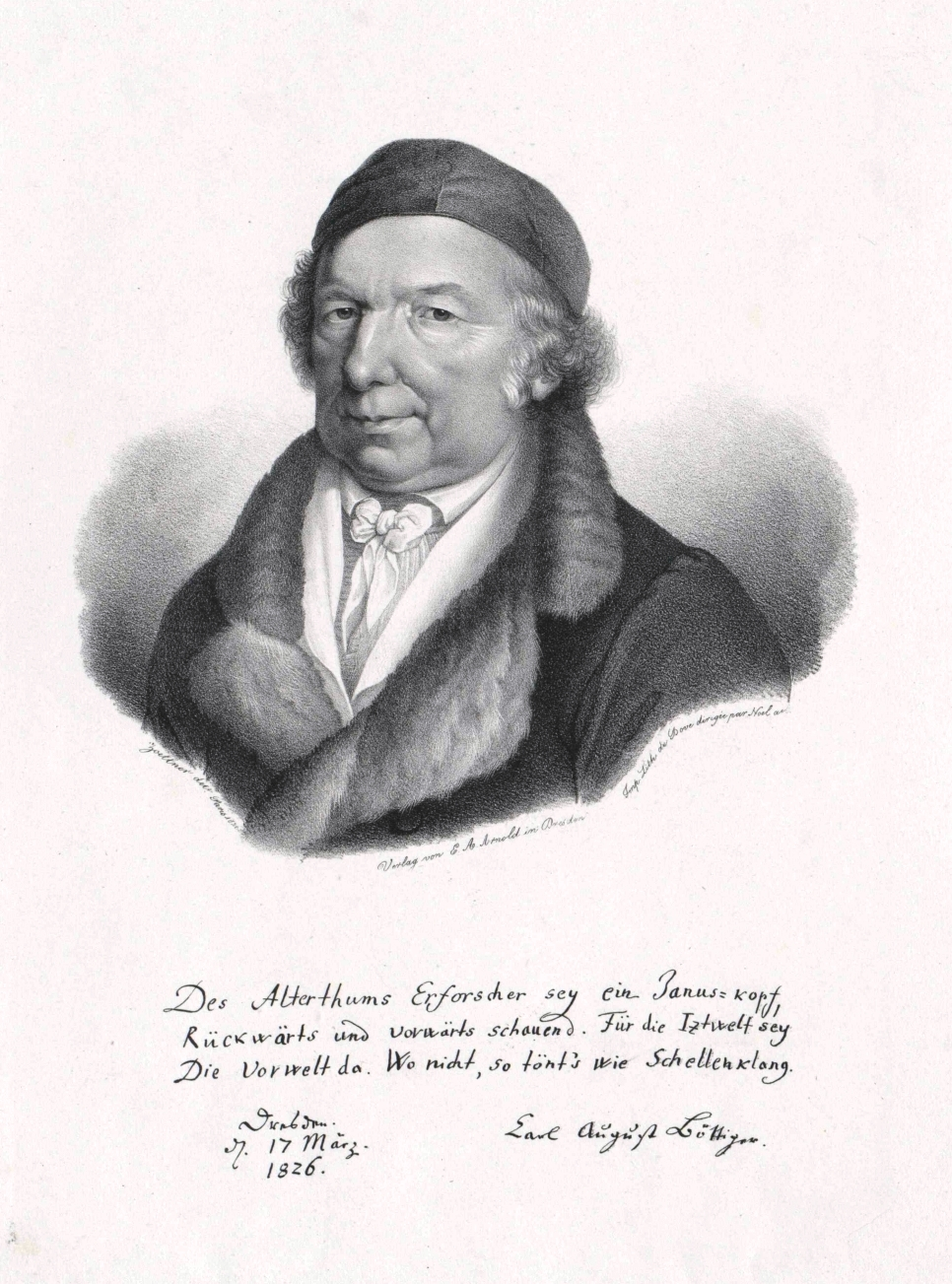 Portrait of Karl August Böttiger (1760-1835)